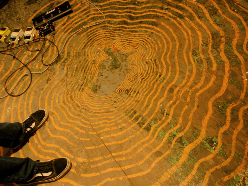 ABC No Rio is a social center located at 156 Rivington street in New York City's Lower East Side